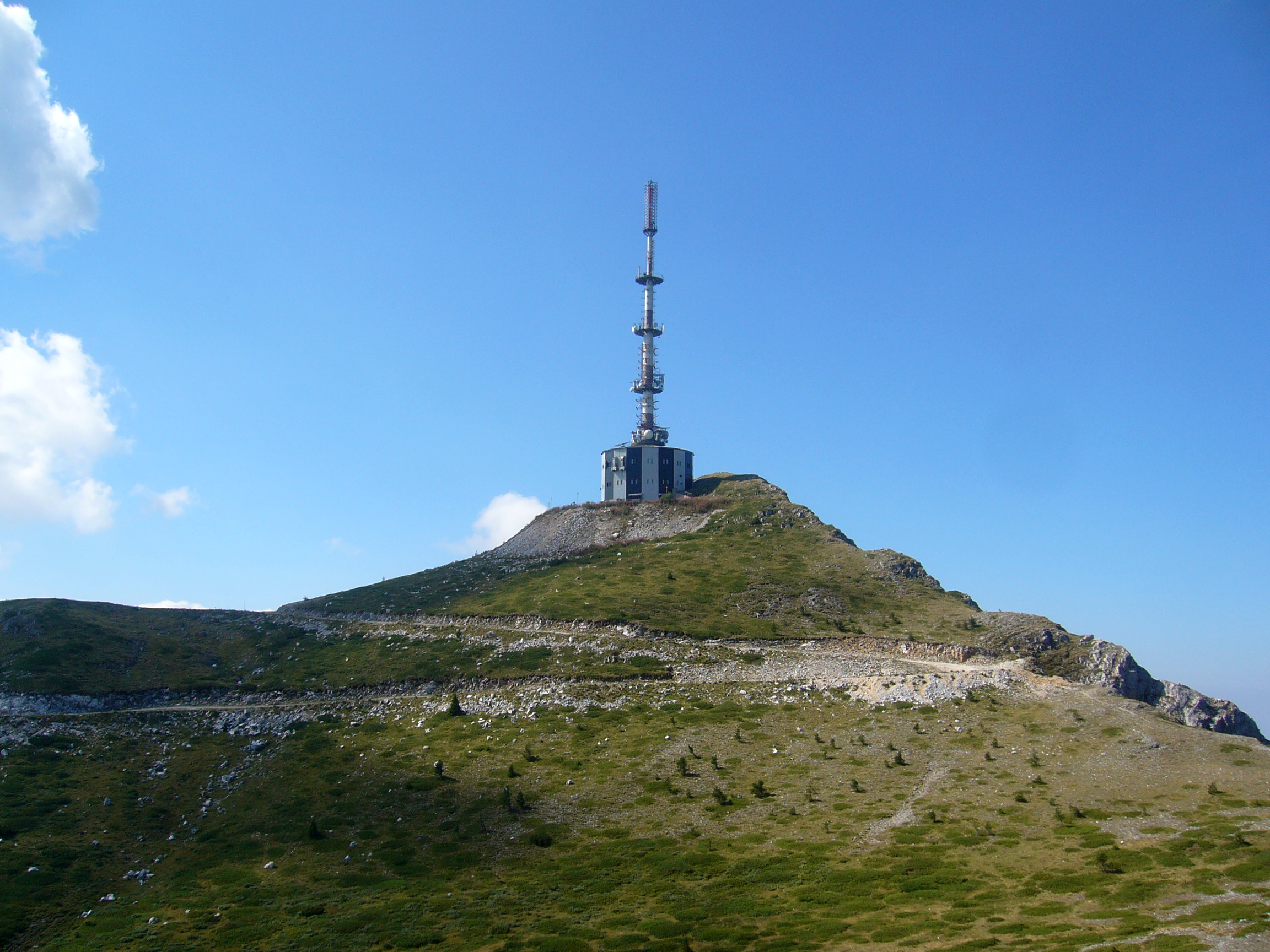 Orelyak peak, Pirin mountain